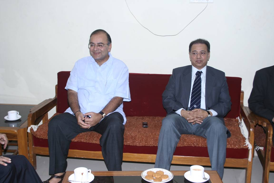 Finance Minister at GNLU